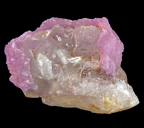 Quartz (Var.: Rose Quartz), Quartz (Var.: Smoky Quartz) Locality: Darra-i-Pech (Pech; Peech; Darra-e-Pech) Pegmatite Field, Nangarhar (Ningarhar) Province, Afghanistan (Locality at ) Size: 5.0 x 3.5 x 2.8 cm. I remember seeing some of these specimens around 2006, and they certainly made an impact on me due to their amazing similarity to the classic and famous Rose Quartz specimens from Brazil. This specimen features a rarely seen and highly sought after "halo"-shaped growth of intense pink Rose Quartz crystals sitting atop a light colored Smoky Quartz crystal. The piece is amazingly reminiscent of those from Itinga, Brazil which were found over 30 years ago. For the size of the crystals, the color is outstanding, and even though Rose Quartz is fairly common in the world, there are only a handful of localities where well-crystallized display specimens such as this are found. Afghanistan is obviously not what comes to mind when one thinks of Rose Quartz specimens, and this piece is a great example of how certain pegmatites on opposite sides of the planet can resemble one another. I'm told that these specimens are no longer coming out of the ground. Ex. Brian Kosnar Collection.